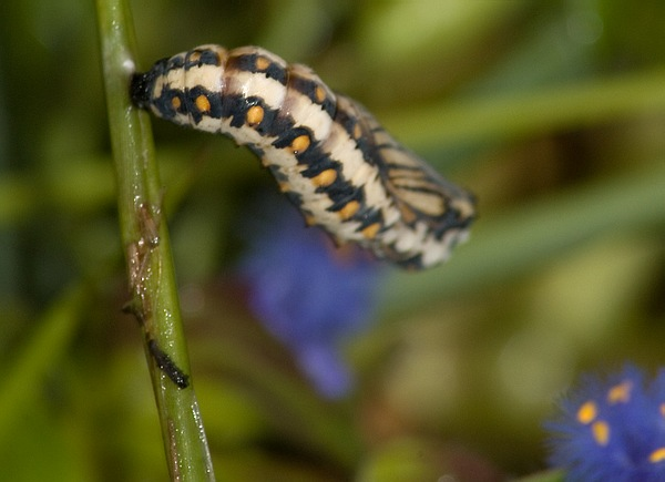 Caterpillar of Acraea issoria, India